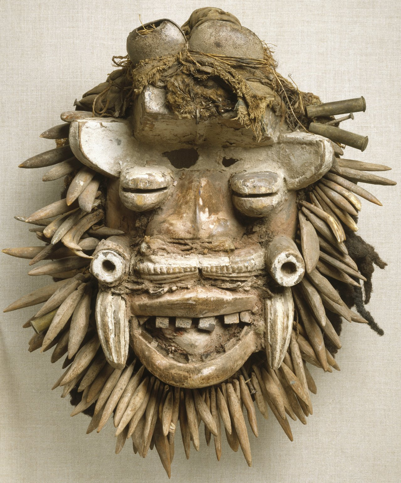 The face mask, which appears to represent a bush spirit, contains animal and human composits. It has two protruding winglike ears and two sets of eyes: one castenet shaped; the other tubular. Its large open mouth contains a tongue covered with cloth, metal teeth, and on each side, a boar's tusk. Strung around the rim of the mask are ivory teeth, wooden pieces, nails, rope, raffia fiber, cloth and hair. White pigment has been applied to parts of the mask. The mask's condition is fragile. Pigment is missing in some areas and flaking in others; cloth attachments are worn and fragile.